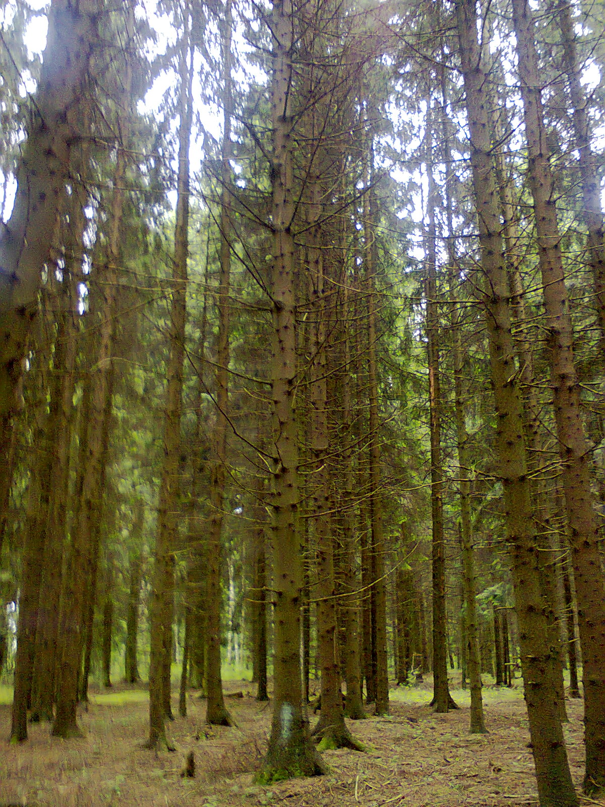 Spruce forest next Riga (Latvia)